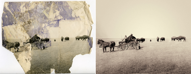 The completed restored photo.